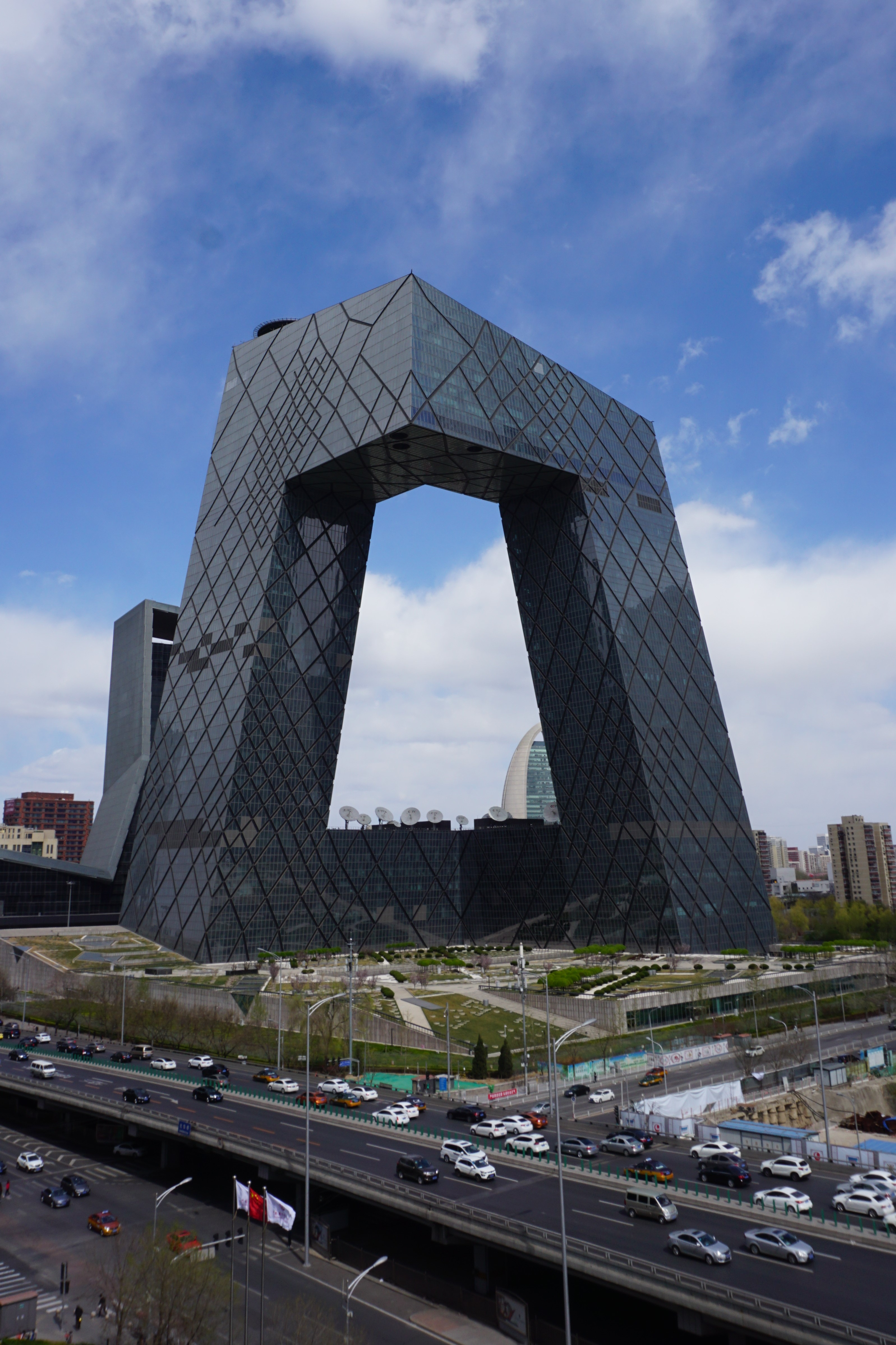 North-East view of China Central Television Headquarters (CCTV), showing the Cultural center in the background on the left